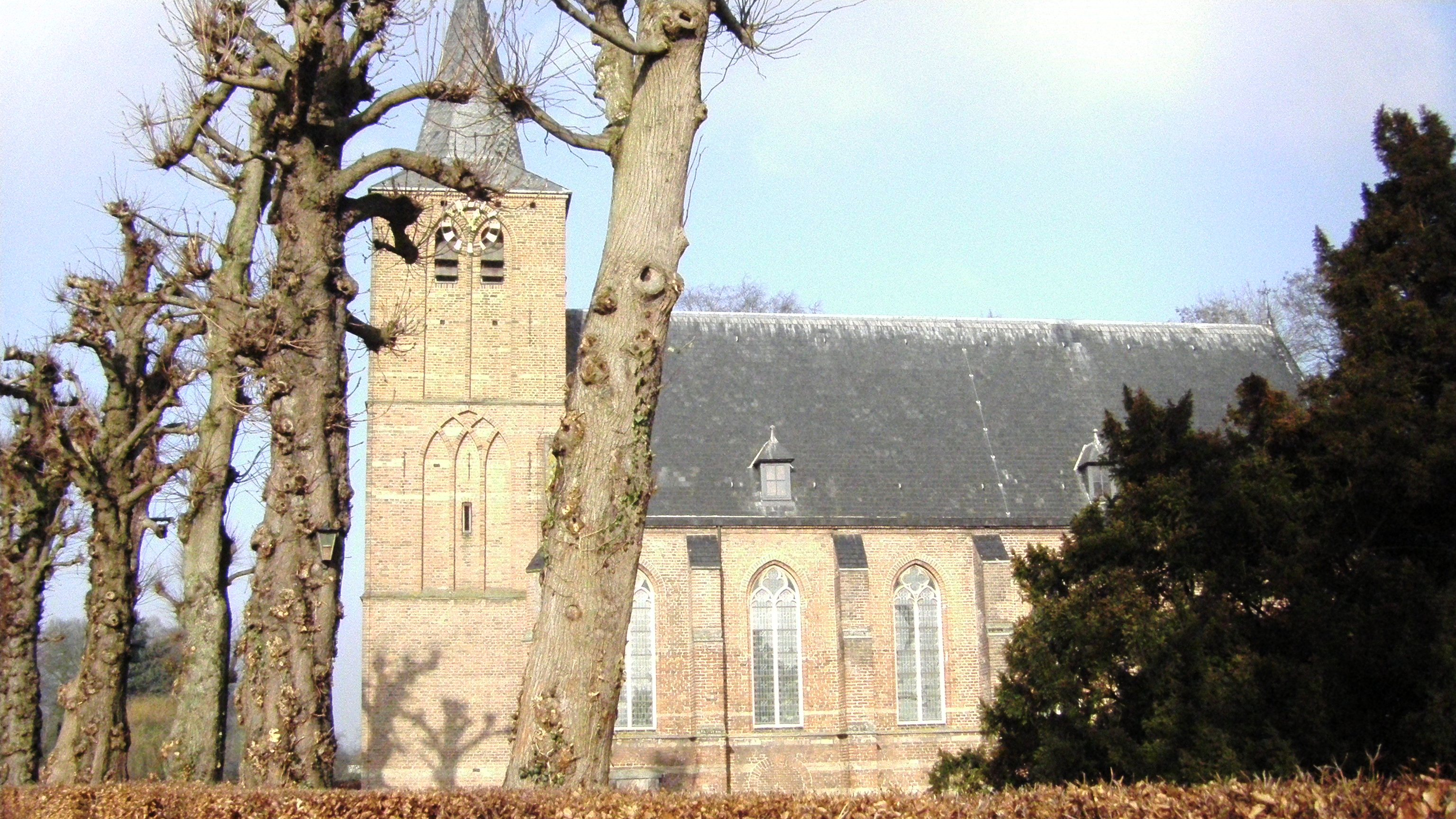 Medieval Church of Hall, The Netherlands